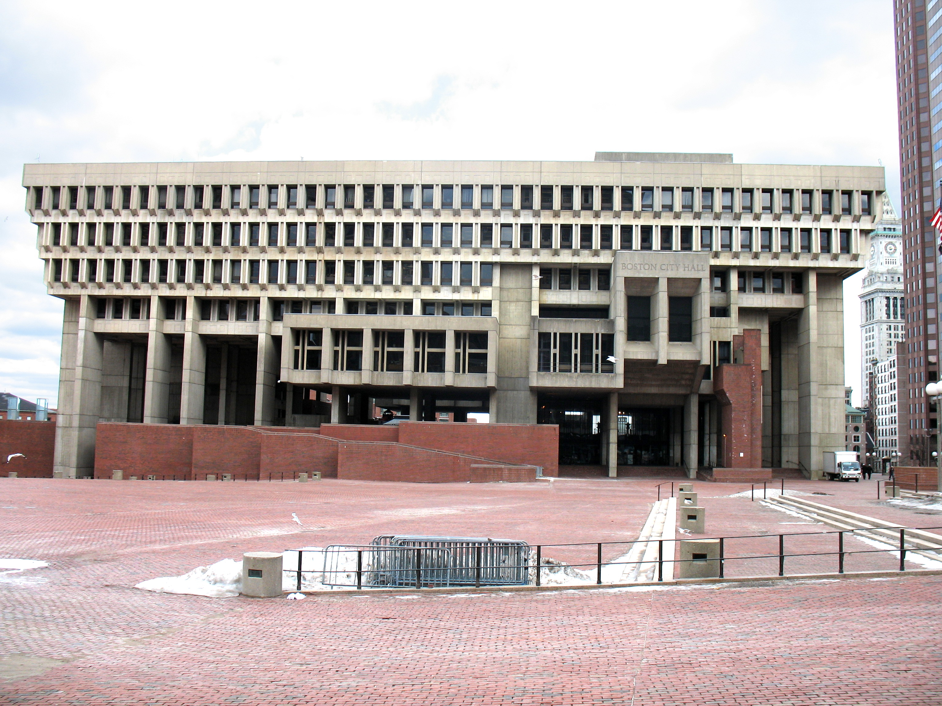 Boston City Hall is the home of the municipal government of Boston, Massachusetts.